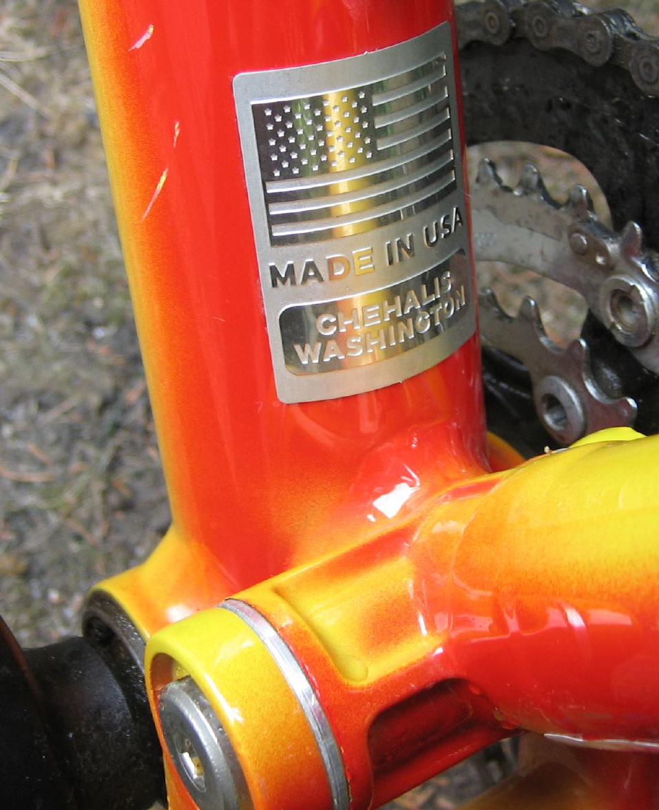 Linkage bottom bracket of an orange Klein Adept Comp mountain bike.